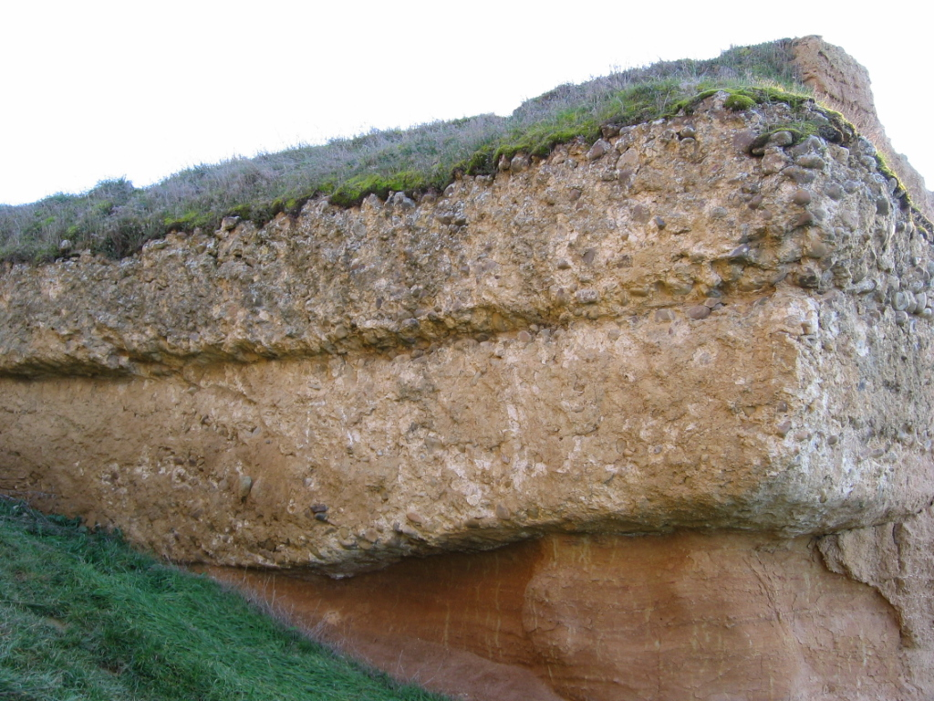 Castle of Castrillo de Villavega (Palencia, Castile and León).